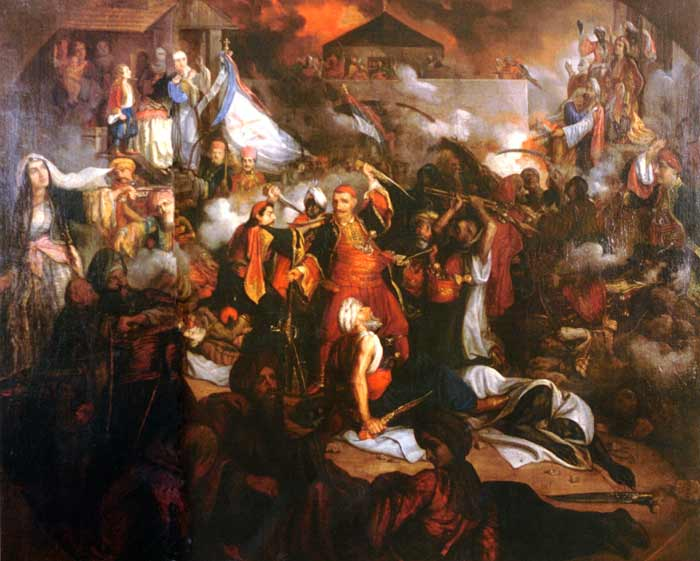 Katarina Ivanović's painting of the liberation of Belgrade in 1806.